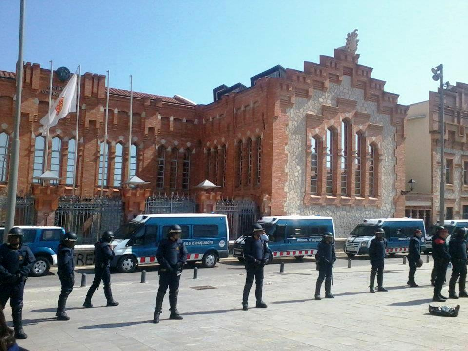 Mossos d'Esquadra of Àrea Regional de Recursos Operatius of the Camp of Tarragona Police Area. Police riot line in the city of Tarragona, protecting the headquarters of the local University Rovira i Virgili. 29 of March, general strike day in Spain.